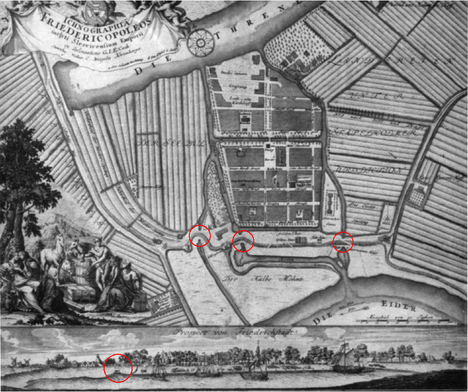 Map of Friedrichstadt about 1750, water outlets marked